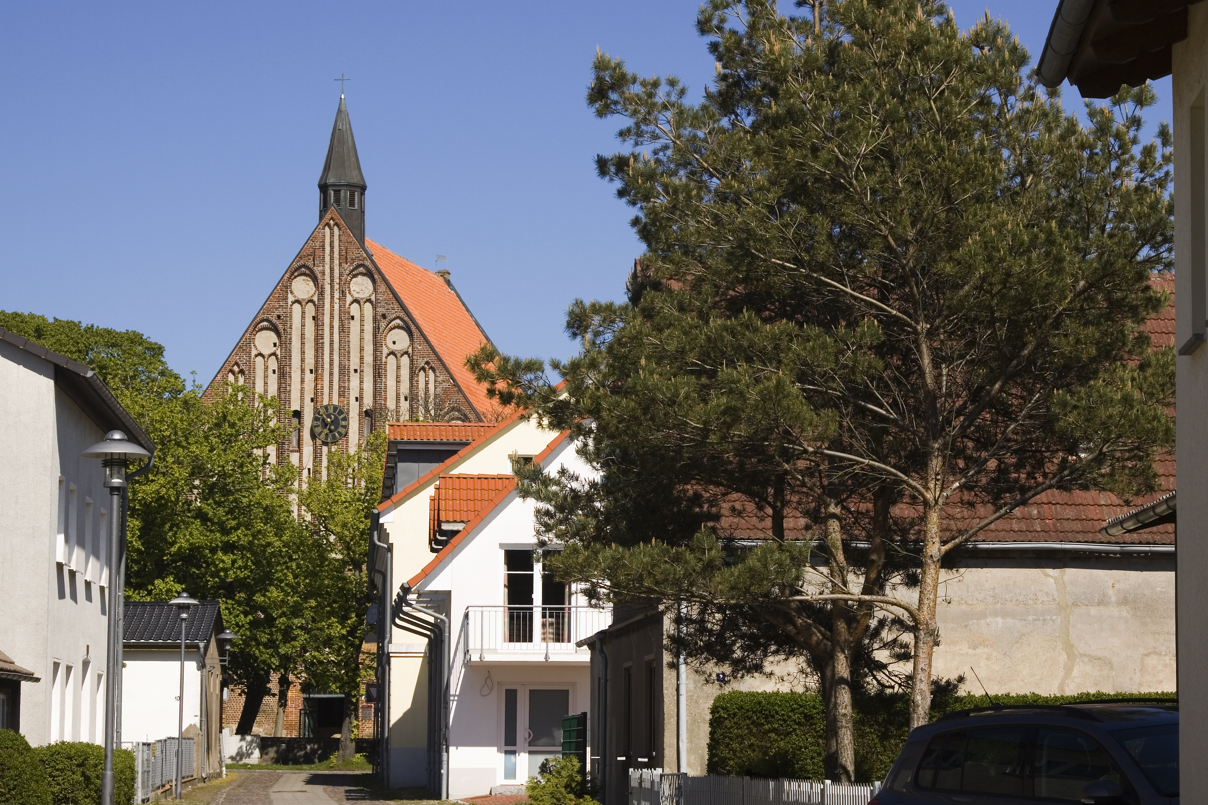 Wiek, Rügen, view onto the church "St. George"